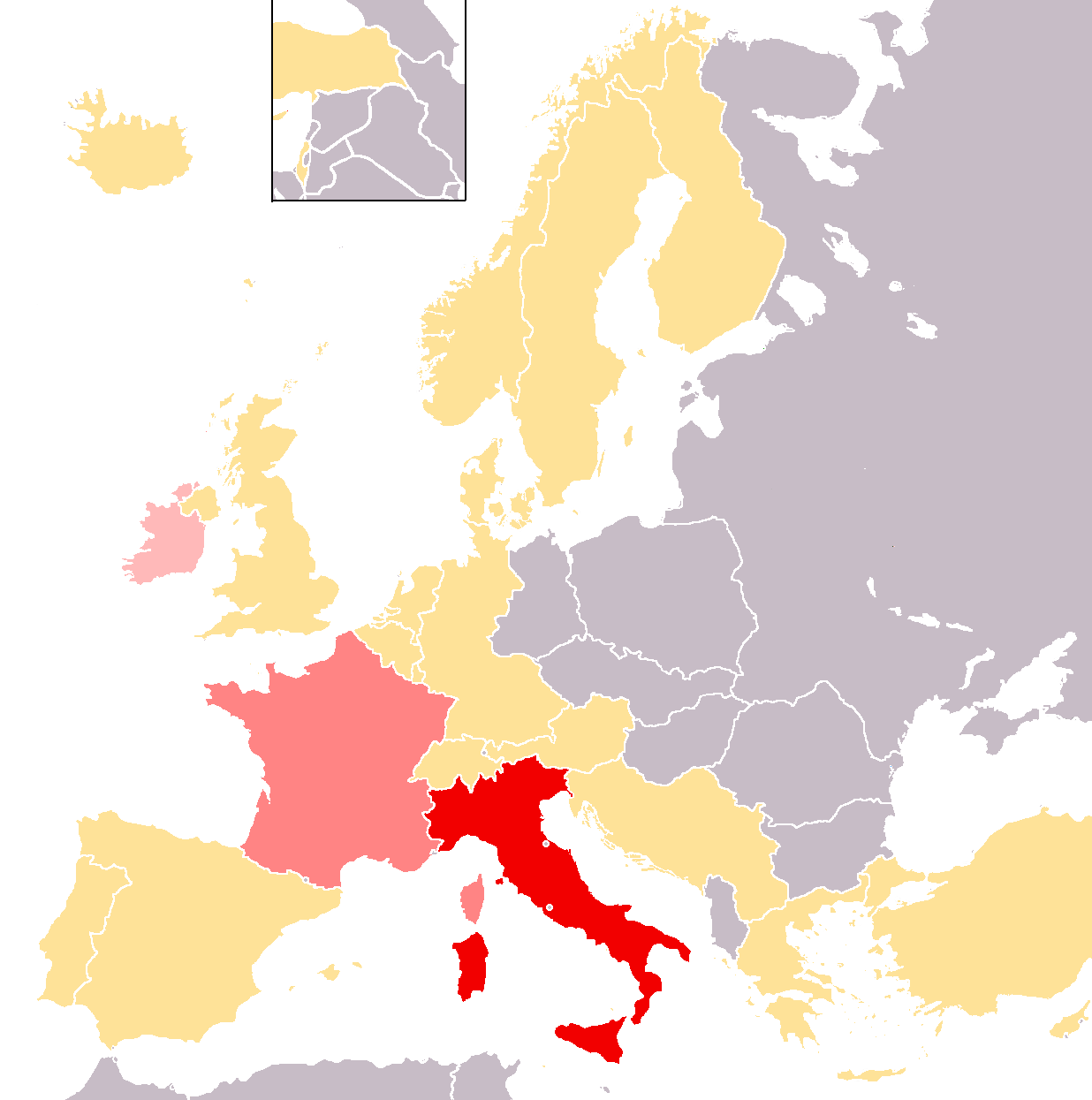 Map of Eurovision Song Contest1990; Colouring: ranked 1st 2nd 3rd in the contest